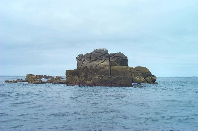 Gorregan - Scilly. Carn Ithen - the most eastern rock of Gorregan, Western Rocks.